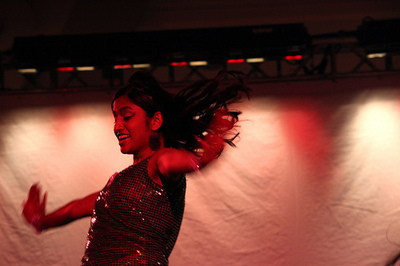 Nachte Raho 2010 performance